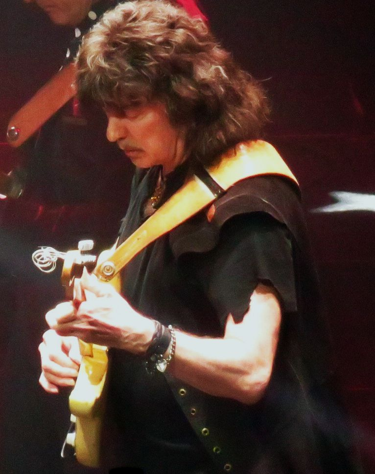 Richie Blackmore at the Gentinr Arena in June 2016.